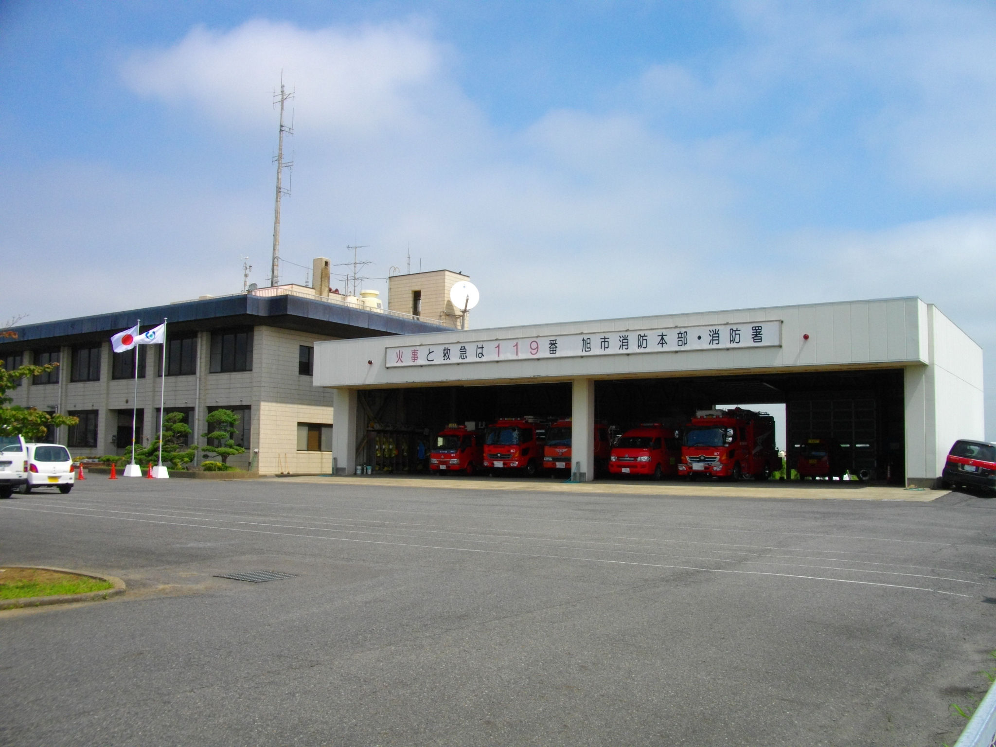 Asahi City Fire Department